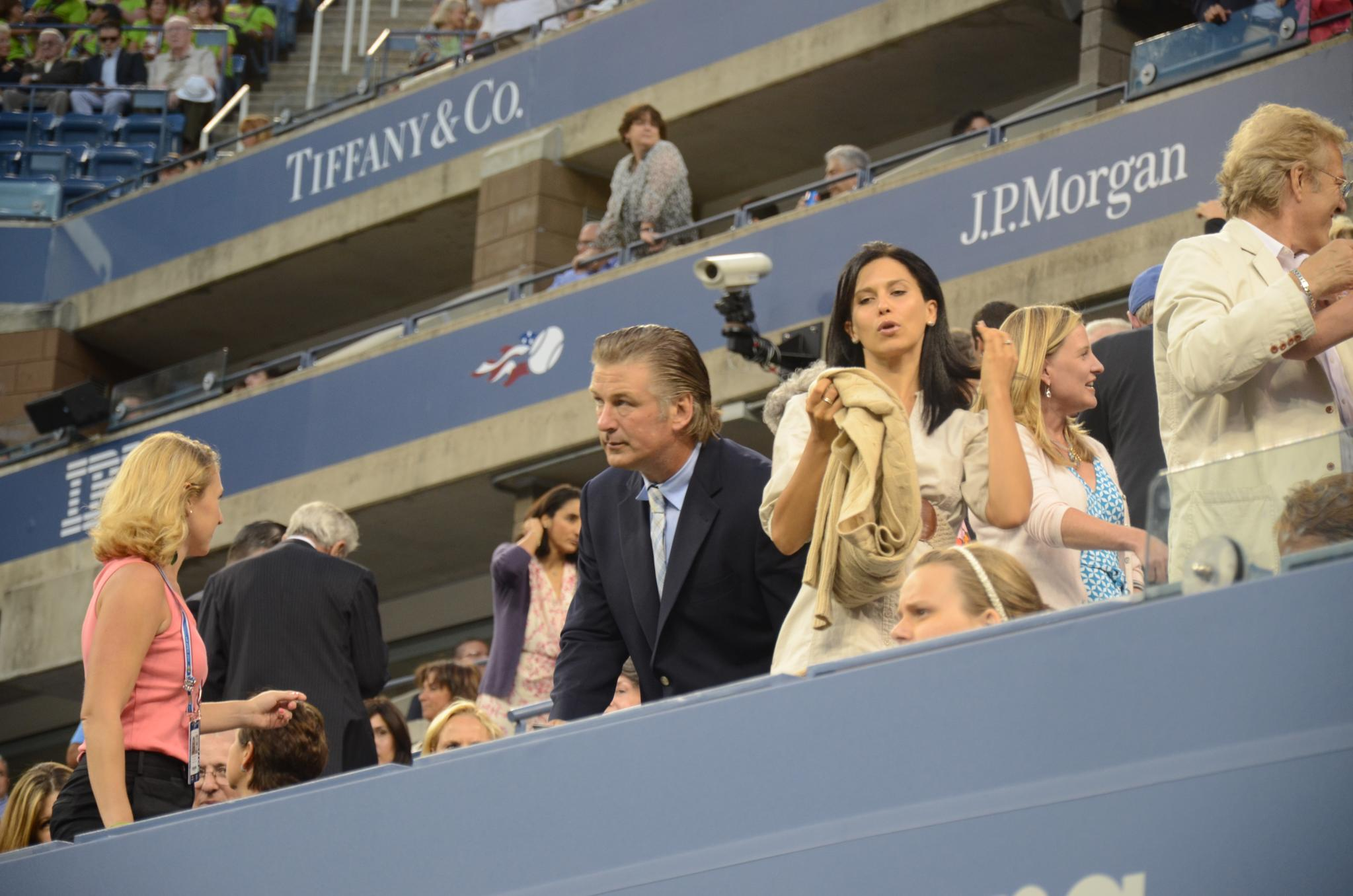 American actor Alec Baldwin at the 2011 US Open, Opening Day